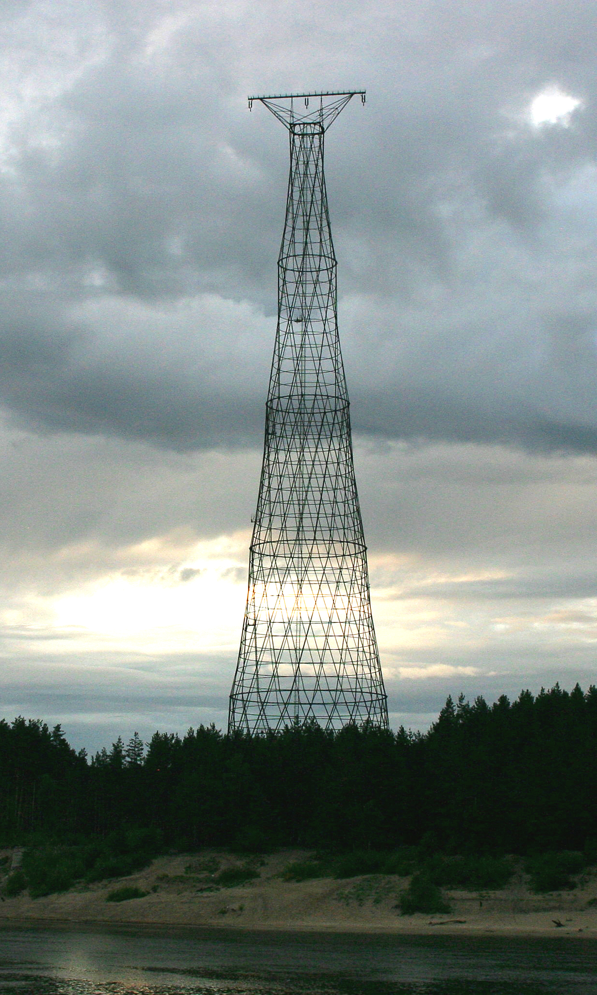 The hyperboloid Shukhov Oka Towers, on the west bank of the Oka River in central Russia. The 1929 Soviet Union era electricity pylons allowed transmission lines to cross the Oka River, and they were designed and engineered by the great Russian scientist Vladimir Shukhov (1853-1939). The remaining one of the two is on the west bank of the Oka River near Dzerzhinsk, in Nizhniy Novgorod Oblast (east tower illegally demolished for scrap steel—2005). The west tower is the world’s only surviving hyperboloid electricity pylon.